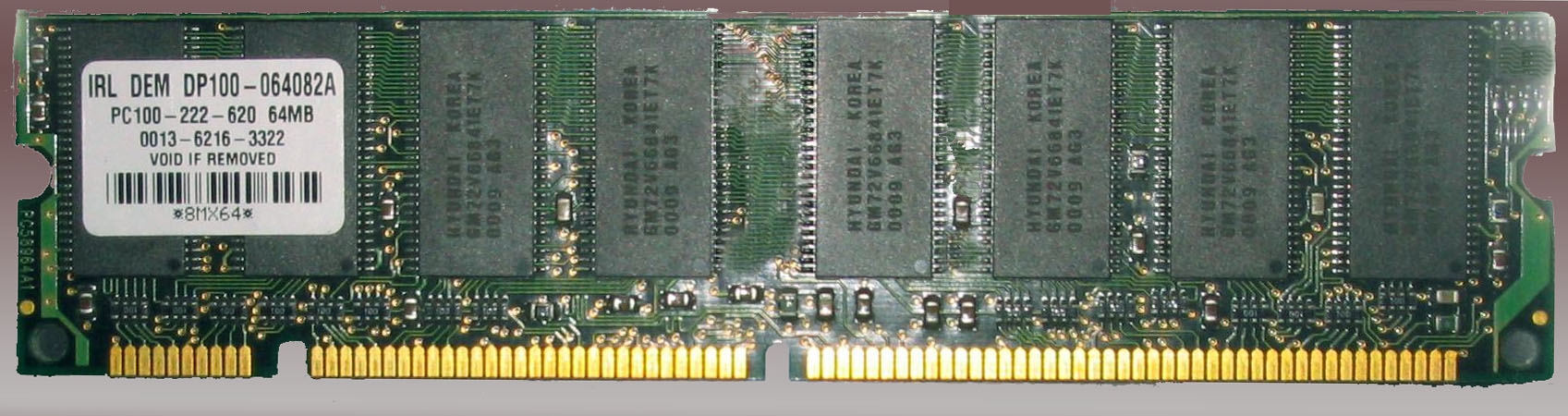 Image to illustrate the physical characteristics of SDR SDRAM.